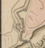 Fortifikation of Sluck, Belarus